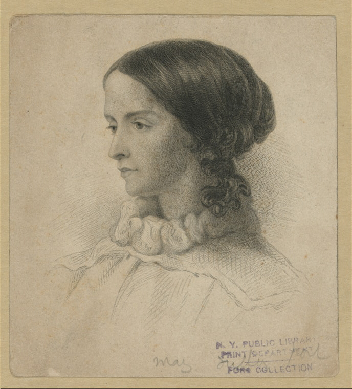 Sarah Margaret Fuller Ossoli (1810-1850) a journalist, critic and women's rights activist.